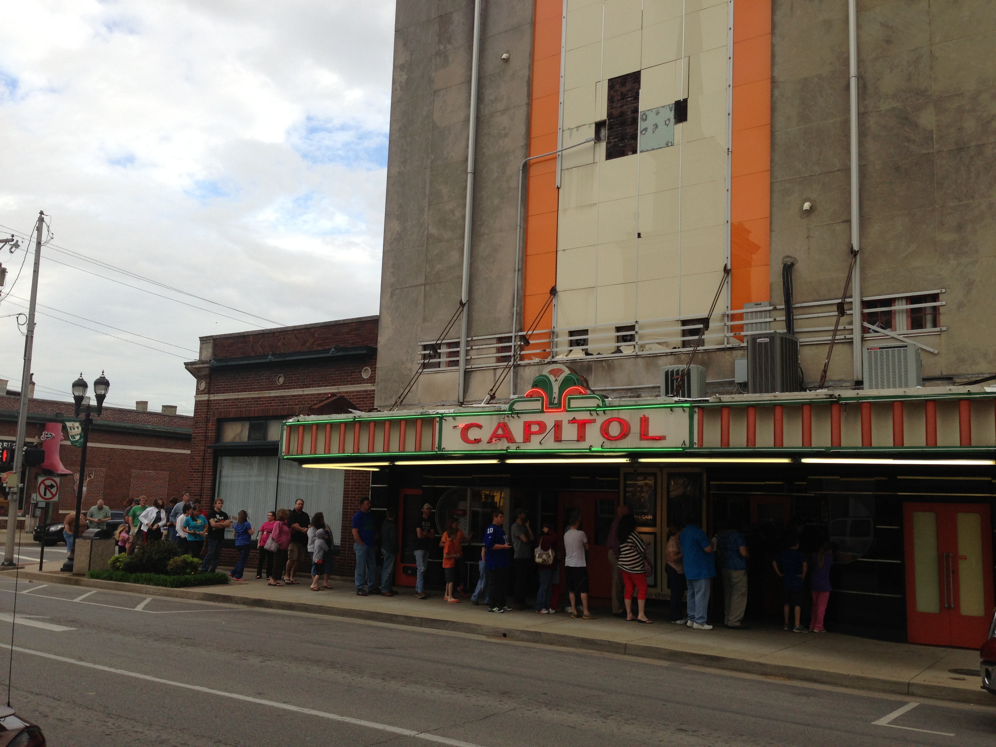 Only operating renovated cinema in the Commonwealth of Kentucky.